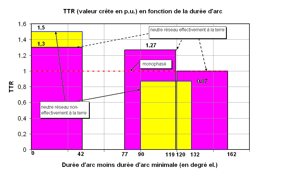 Transient recovery voltage as function of arcing time for HV circuit breaker